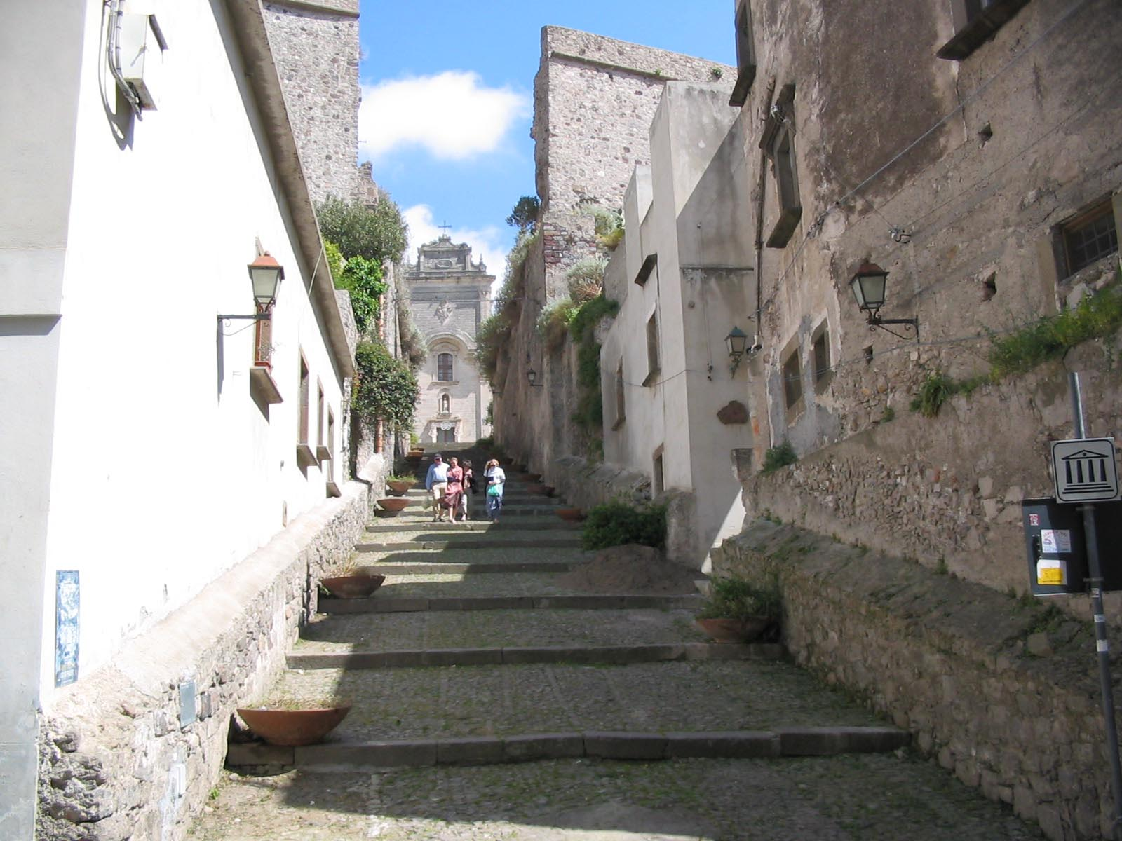 Lipari town, Lipari island, Aeolian islands, Italy (North of Sicily).